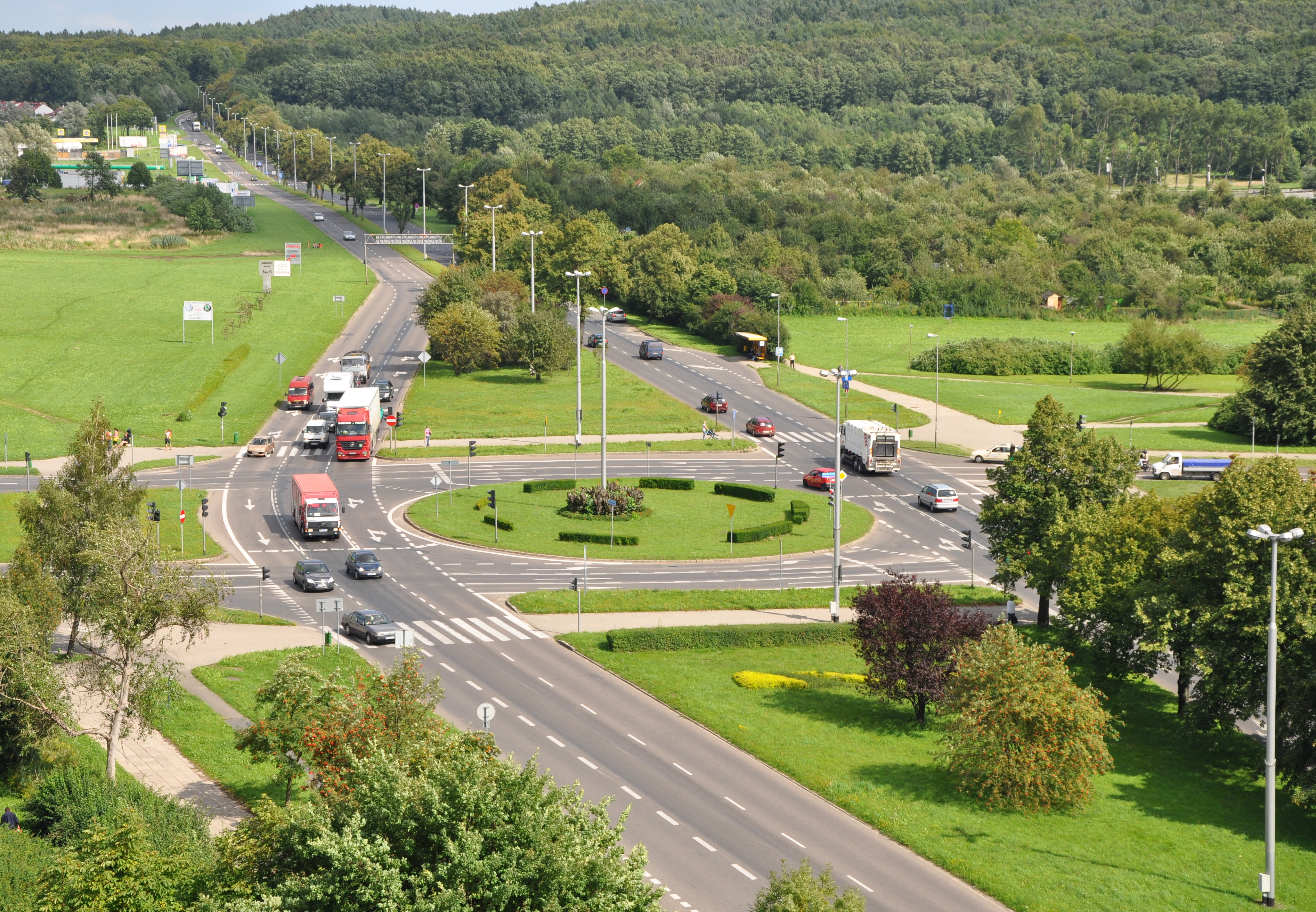 Kardynała Ignacego Jeża Roundabout in Koszalin